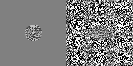 Transferred from File:Chubbillusion.gif